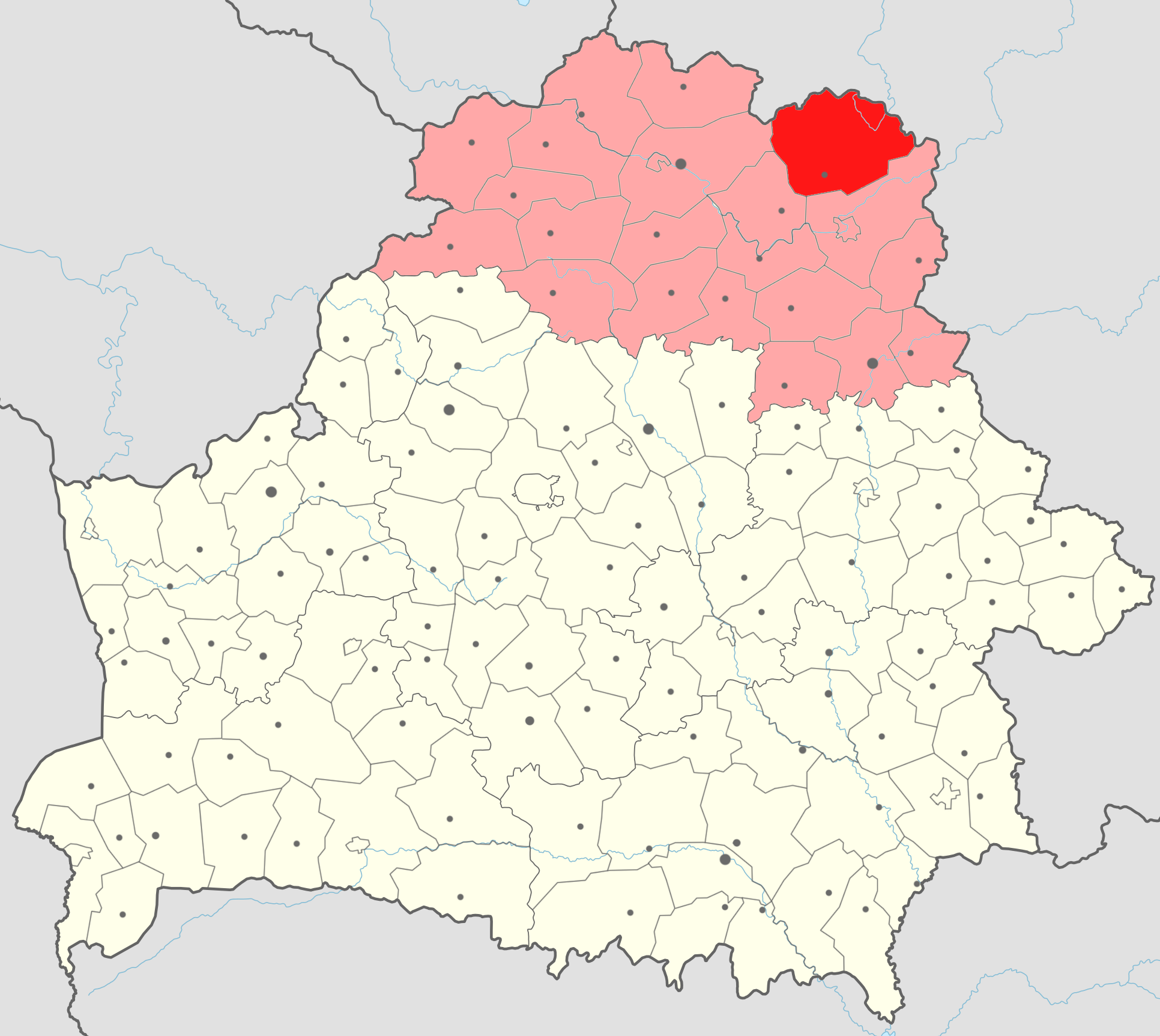 Map of Haradocki raion (in red) with Viciebskaja voblast' (in light red) on the map of Belarus.